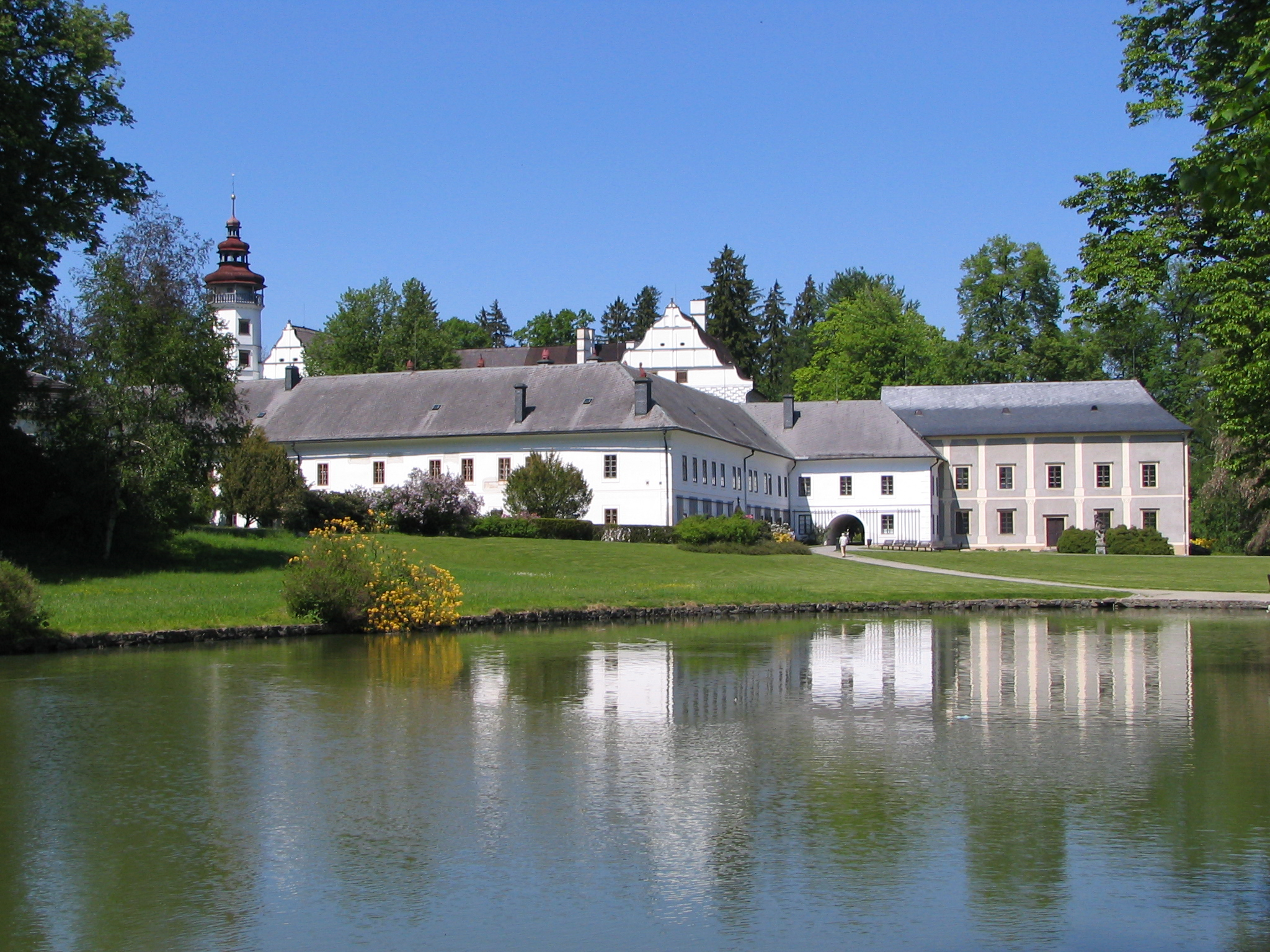 Velké Losiny chateau – view from the park